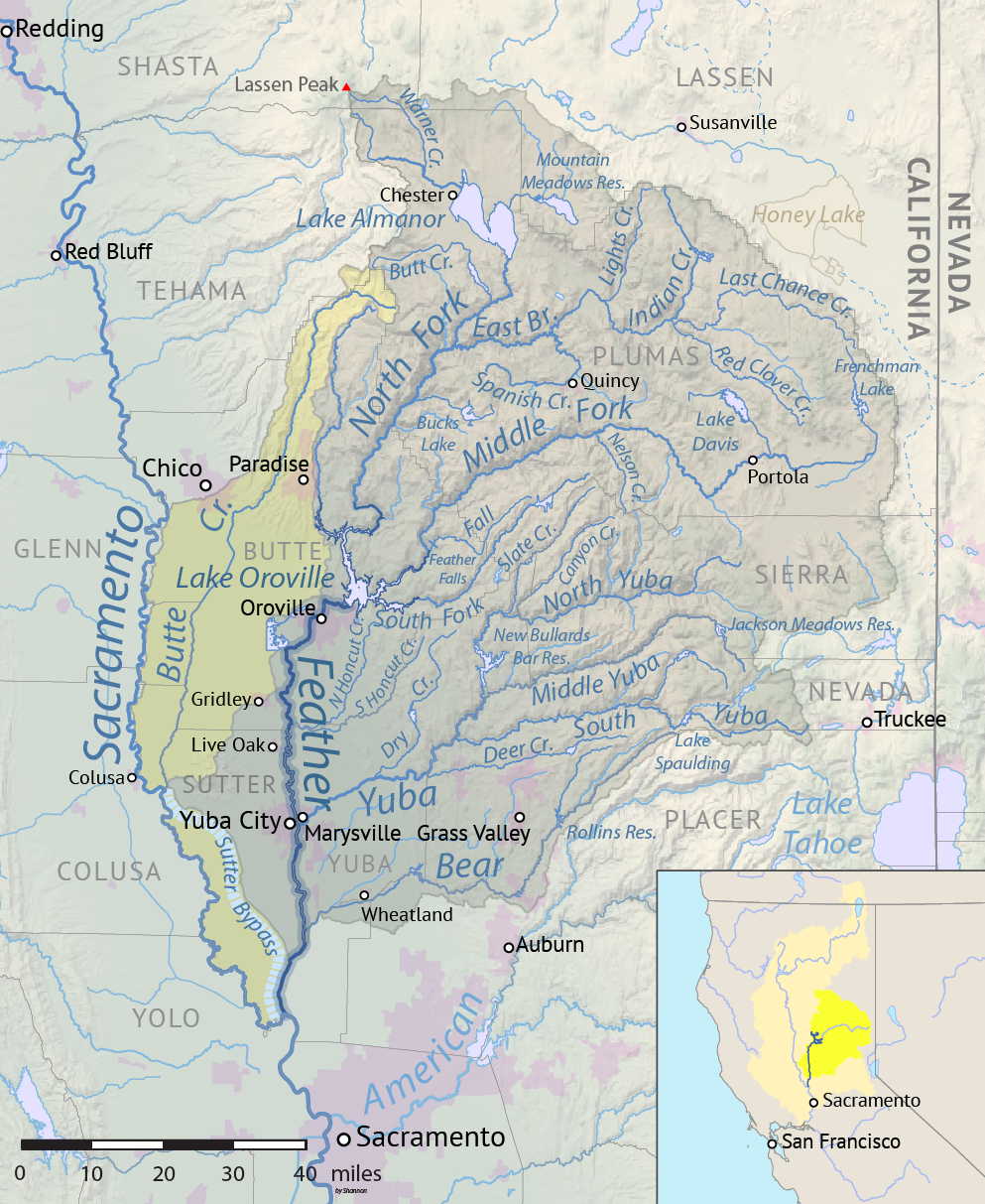 Map of the Feather River drainage basin in Northern California, USA. Yellow indicates the artificially connected Butte Creek and Sutter Bypass basins. Made using USGS National Map and NASA SRTM data.